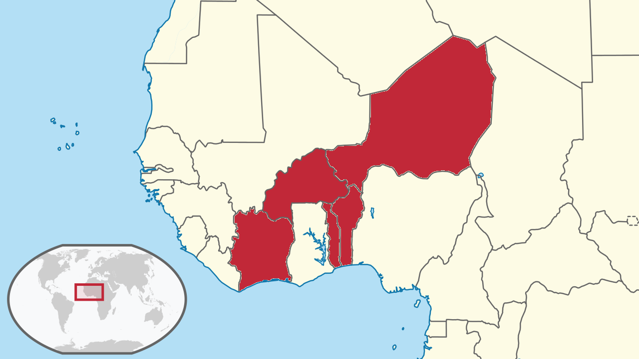 Conseil de l'Entente in its region.